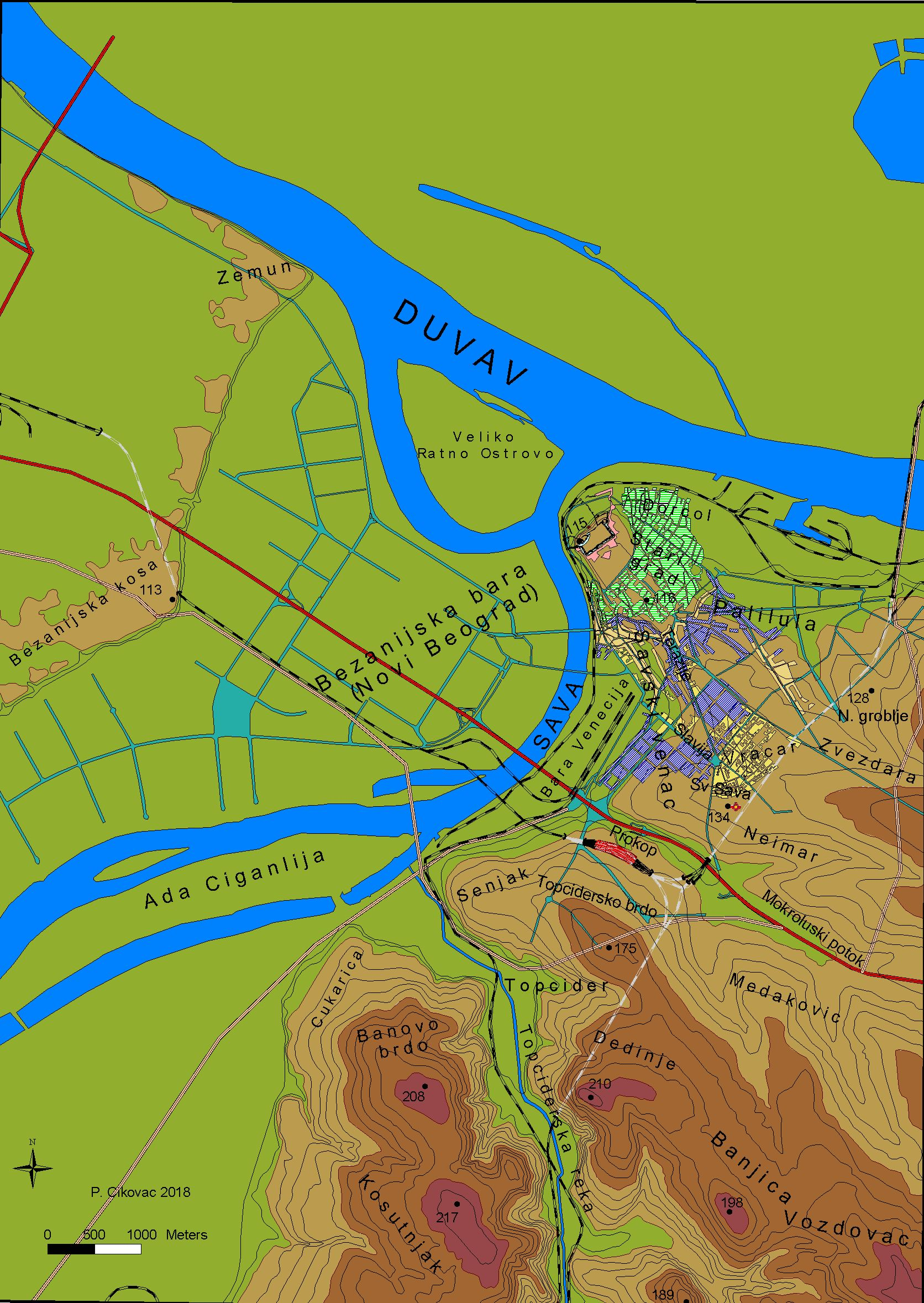 Relief an toponyms in Belgrade, base map of the VGI TK 25 (429-2-4 Beograd), VGI 1990.